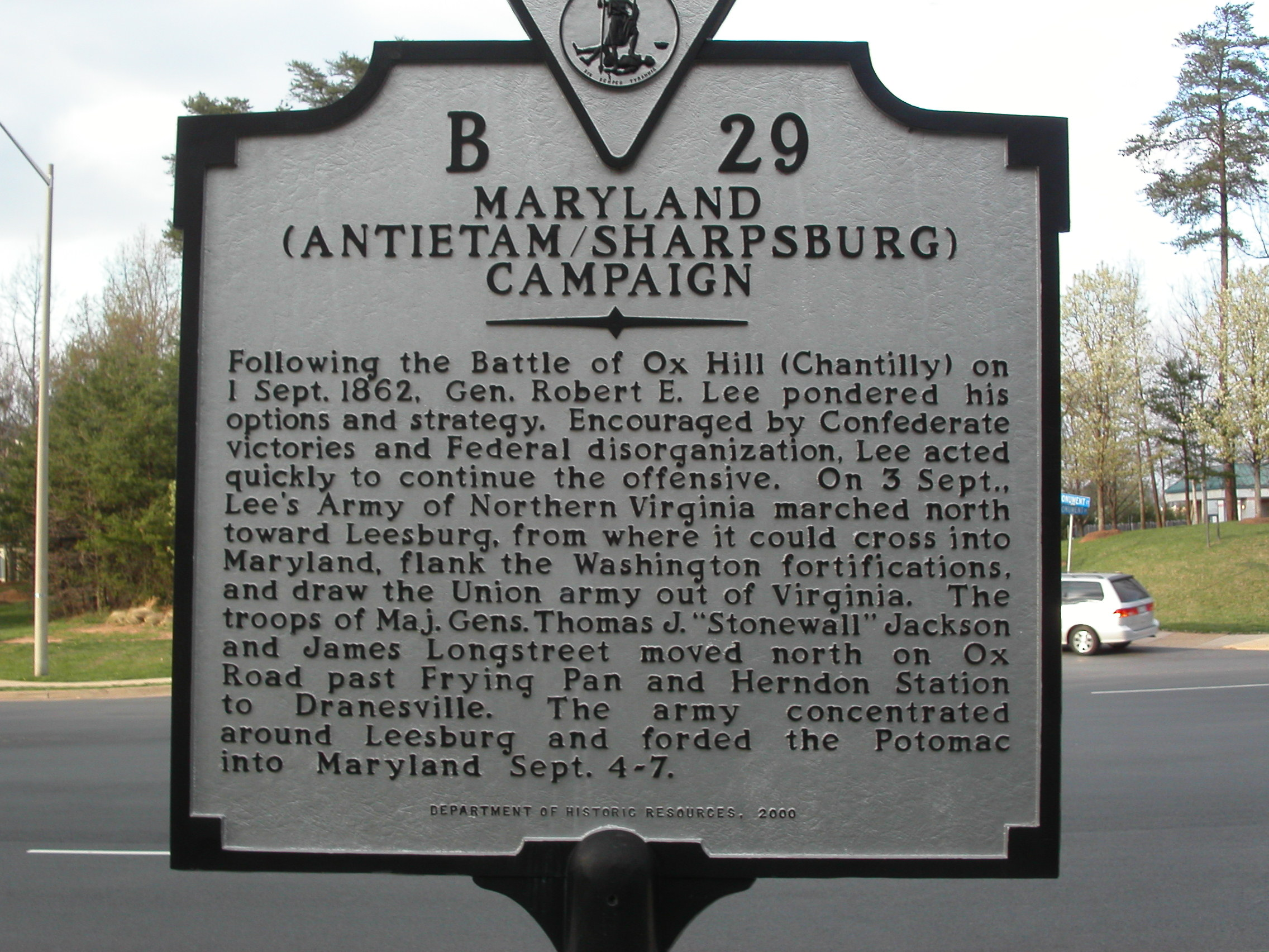 Historic Marker, Maryland Campaign. Photo of Virginia Department of Historic Resources marker B 29, "Maryland (Antietam/Sharpsburg) Campaign". I took this photo on April 8, 2007